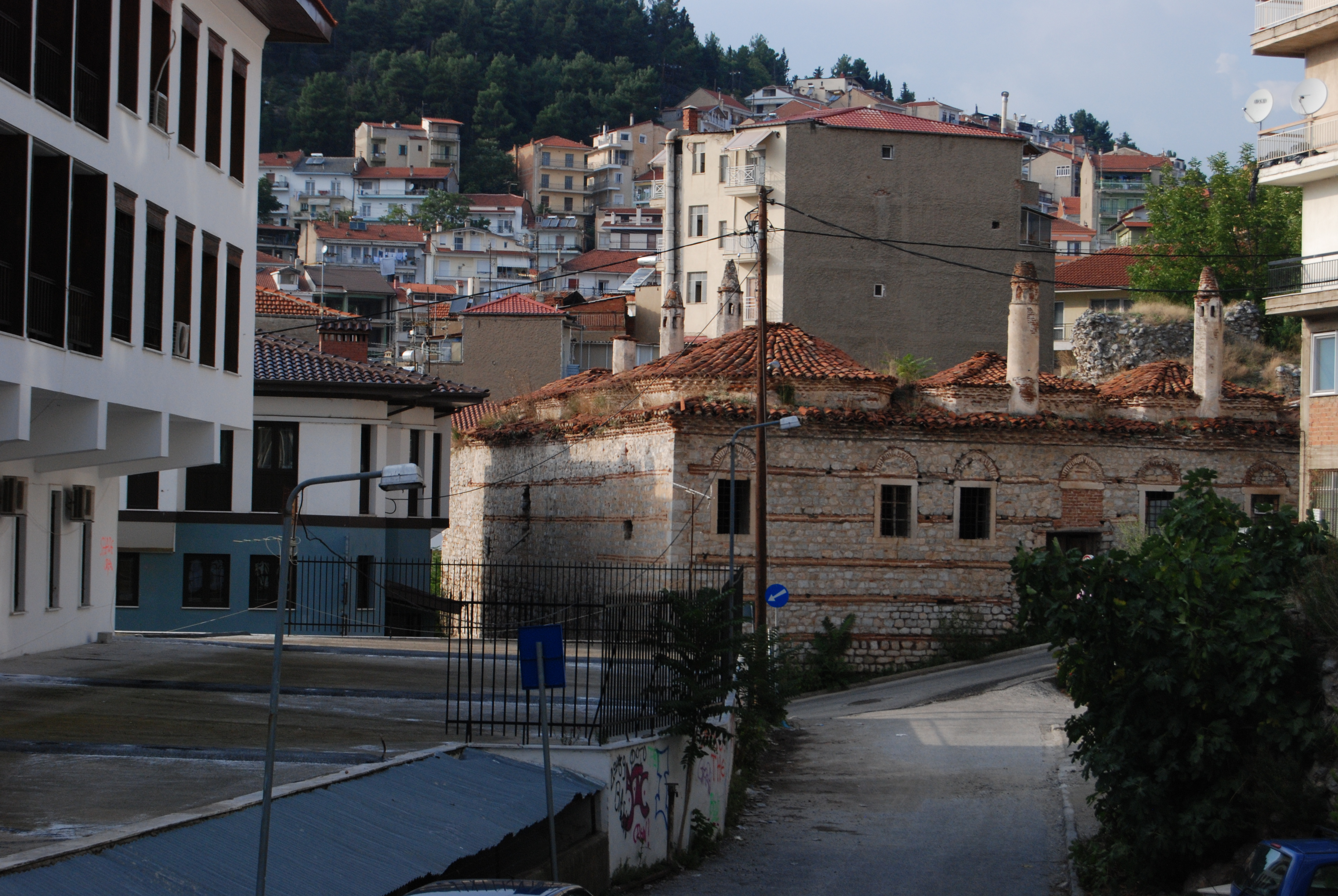 Ahmed Pasha Madrasah